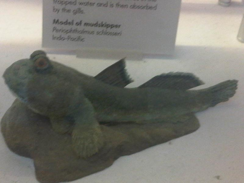 Periophthalmodon schlosseri model at the Natural History Museum in London, England.